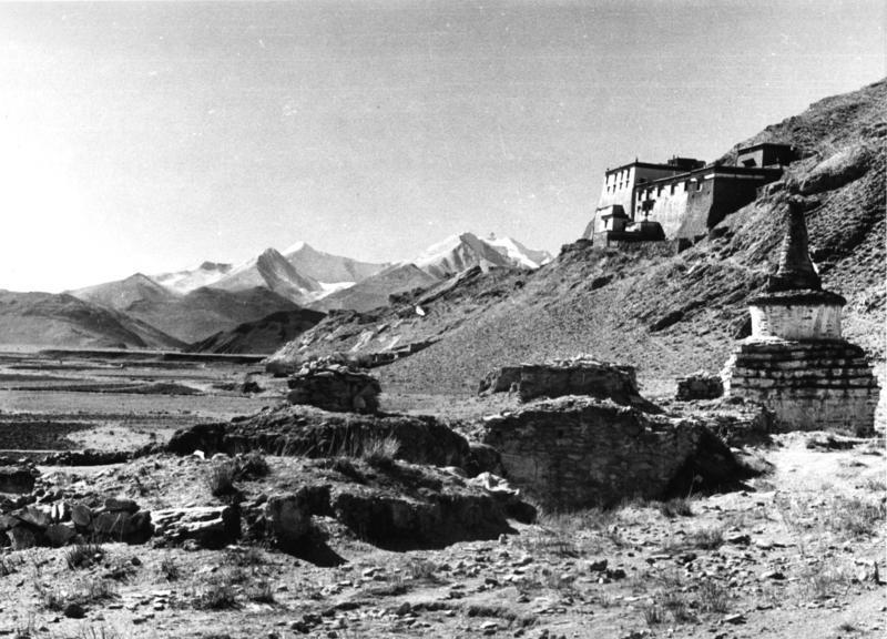 Nangkartse, Dzong, Burg, Felder, Landschaft Information added by Wikimedia users.